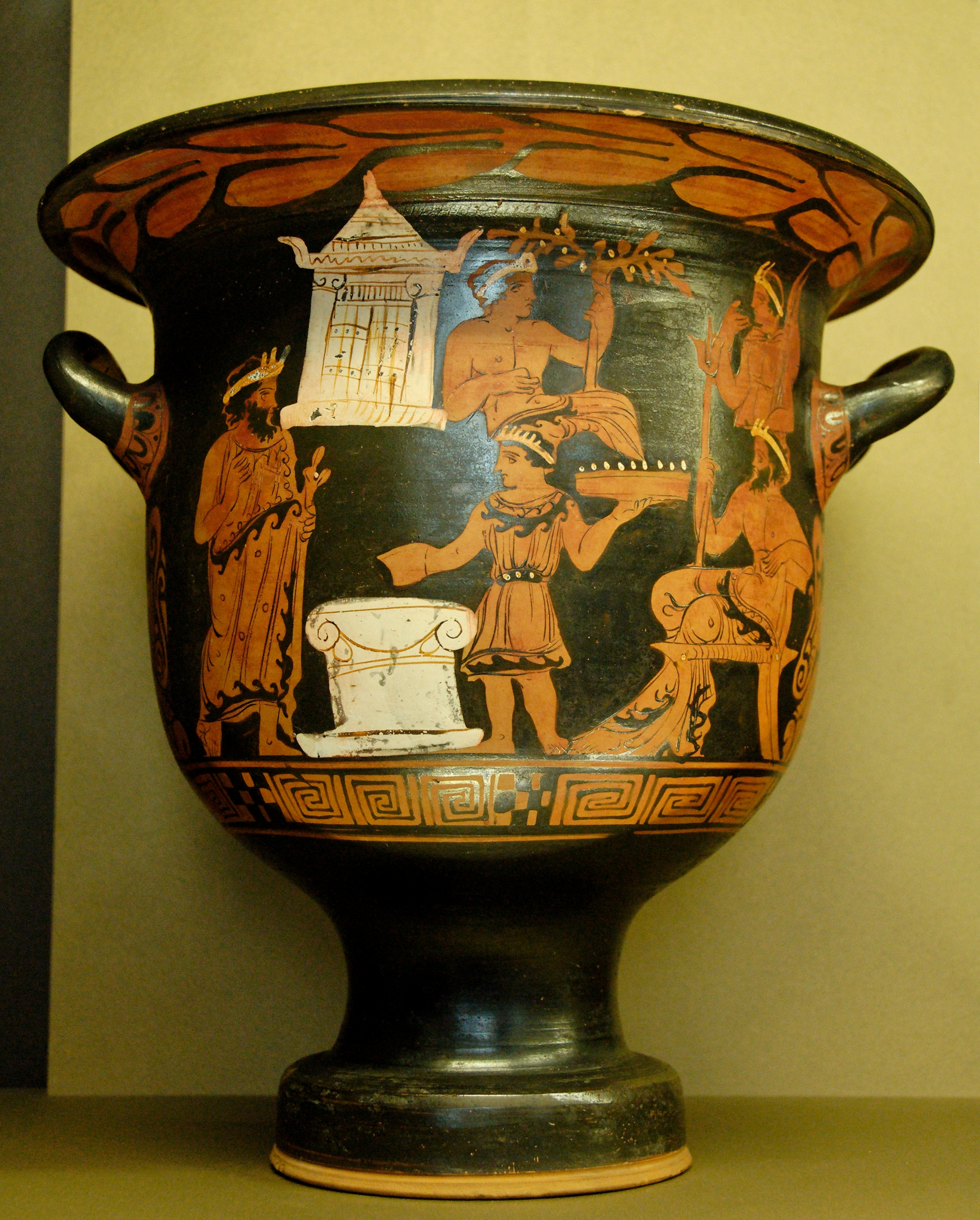 Sacrifice. Campanian red-figured krater, ca. 330–320 BC. From Italy.